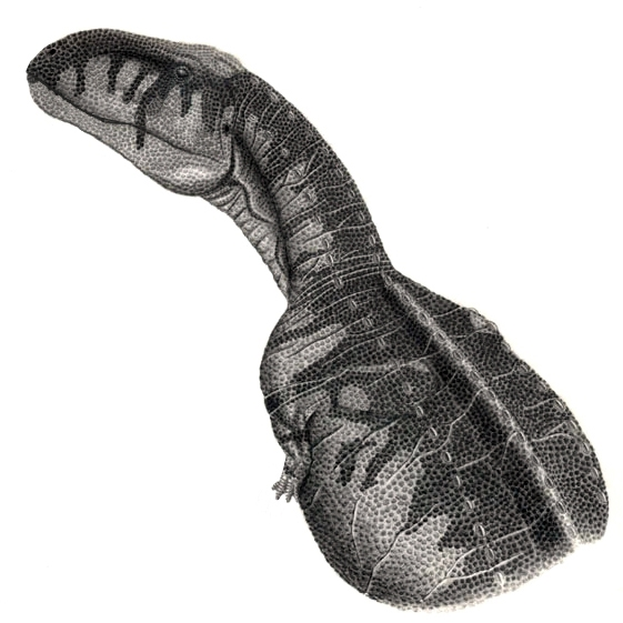 Sketch of Abelisaurus comahuensis, a theropod Dinosaur which has been placed into its own taxon, the Abelisauridae, among several other genera.